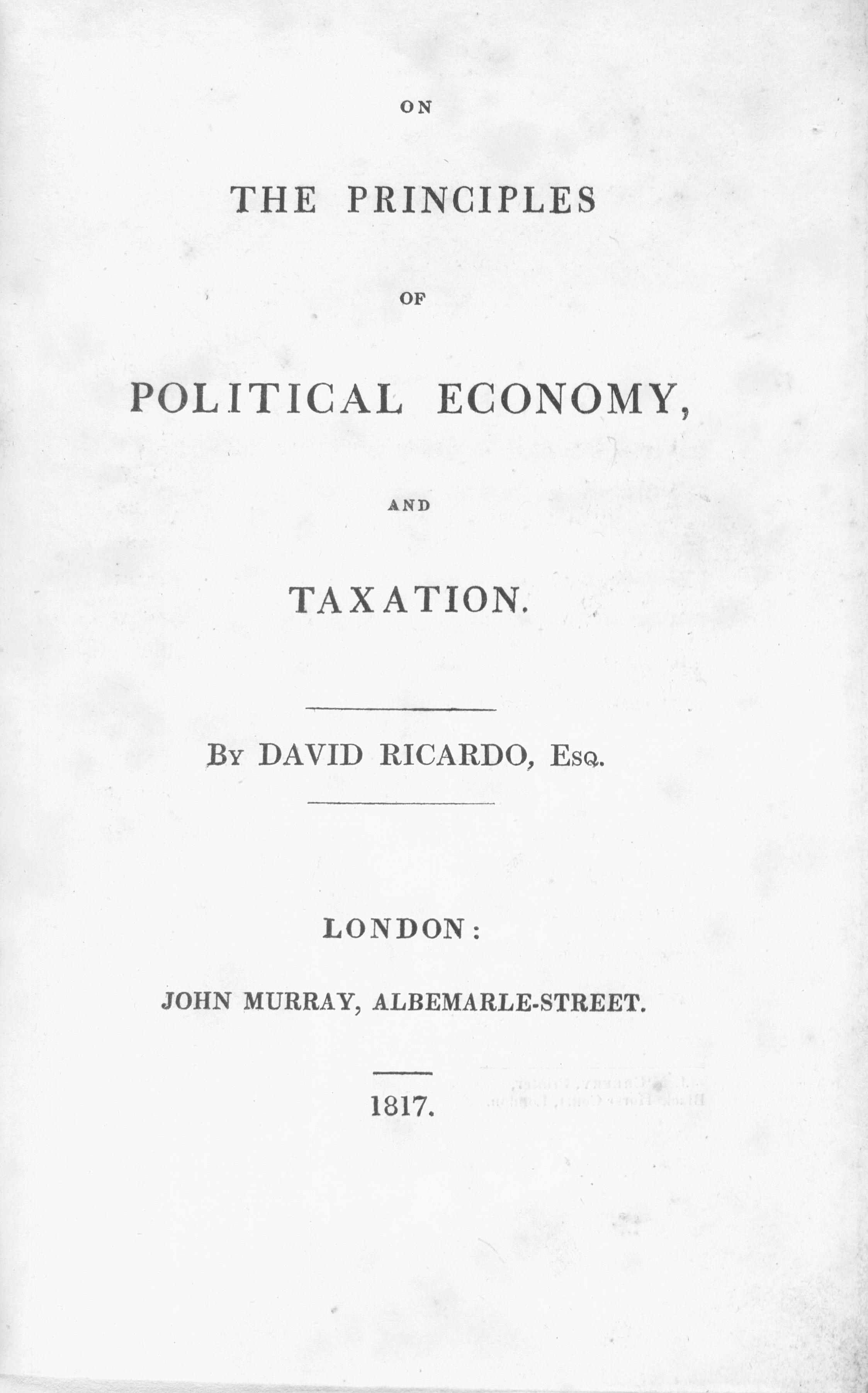 Title page to On the Principles of Political Economy and Taxation by David Ricardo, published 1817.